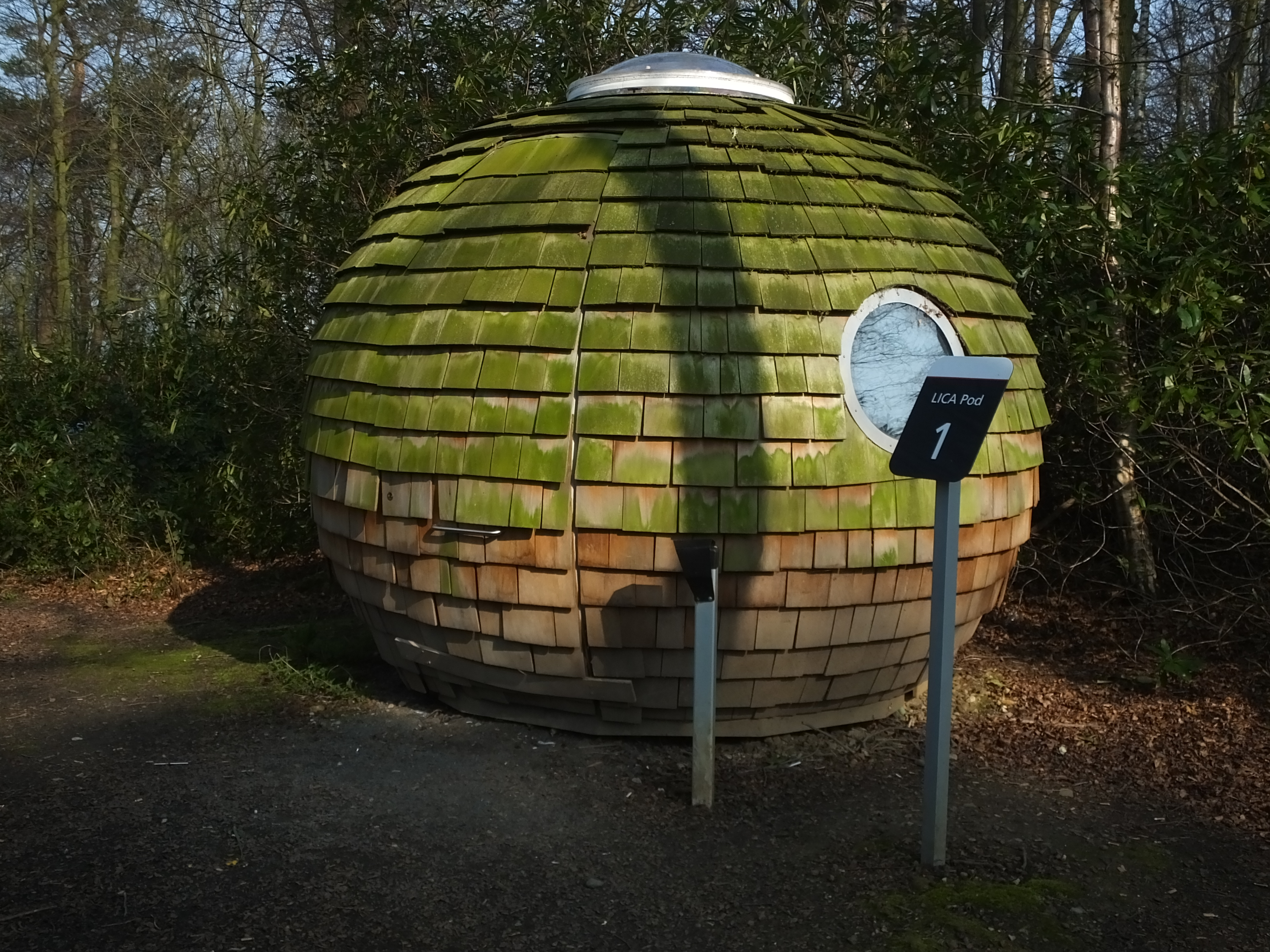 Lancaster University, taken during a vacation. The numbers in the filename cross refer to the official map. A LICA pod